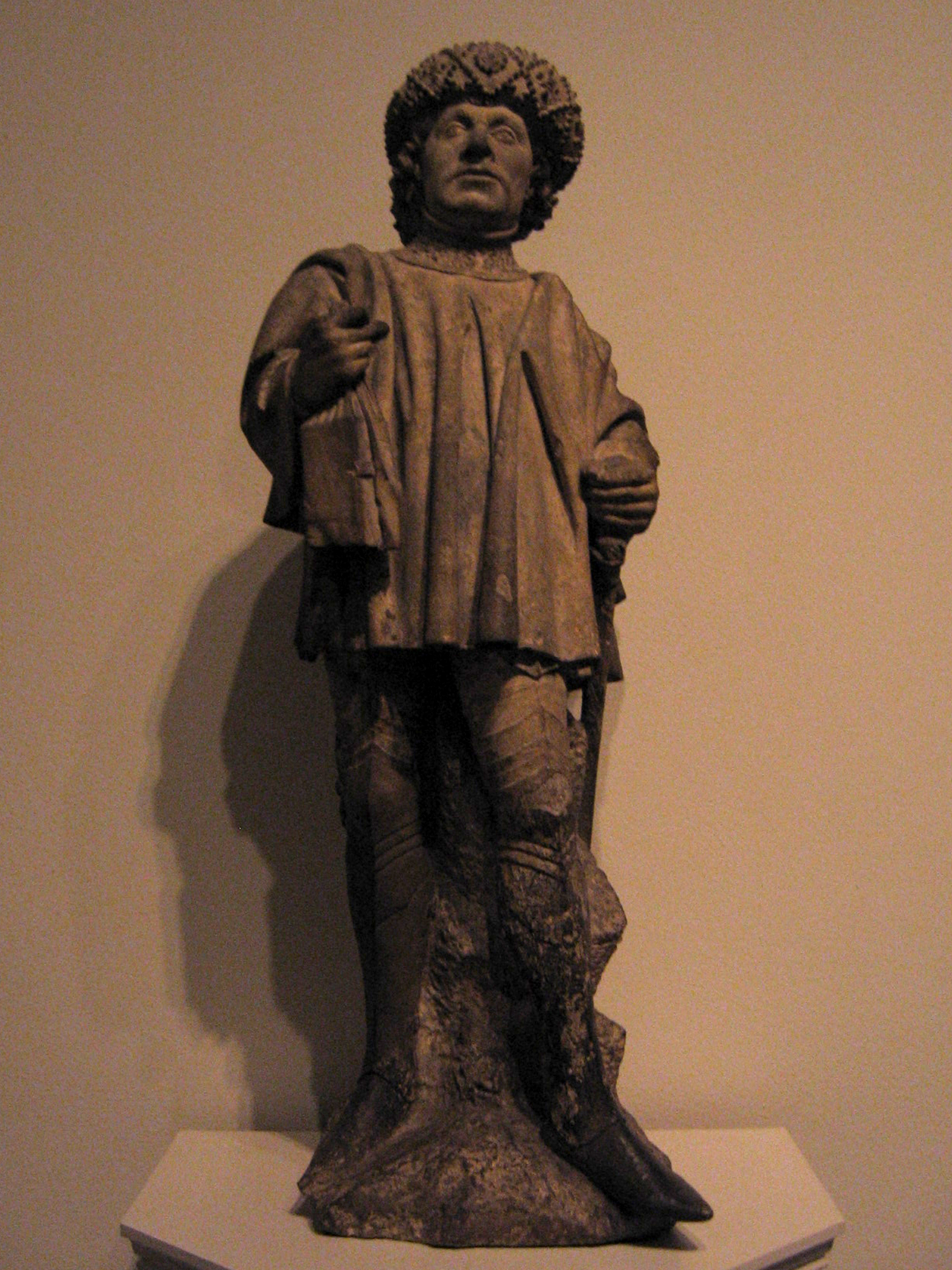 Saint Bavo (d. 657), patron saint of Ghent and Haarlem, North Netherlandish artwork.